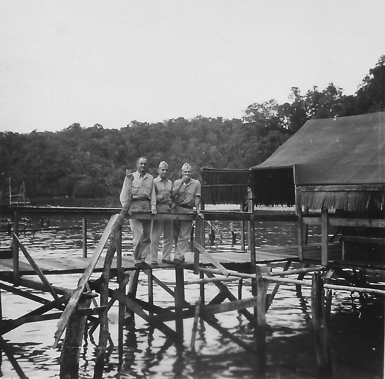 Veranda of the Hollandia, New Guinea, officers' club